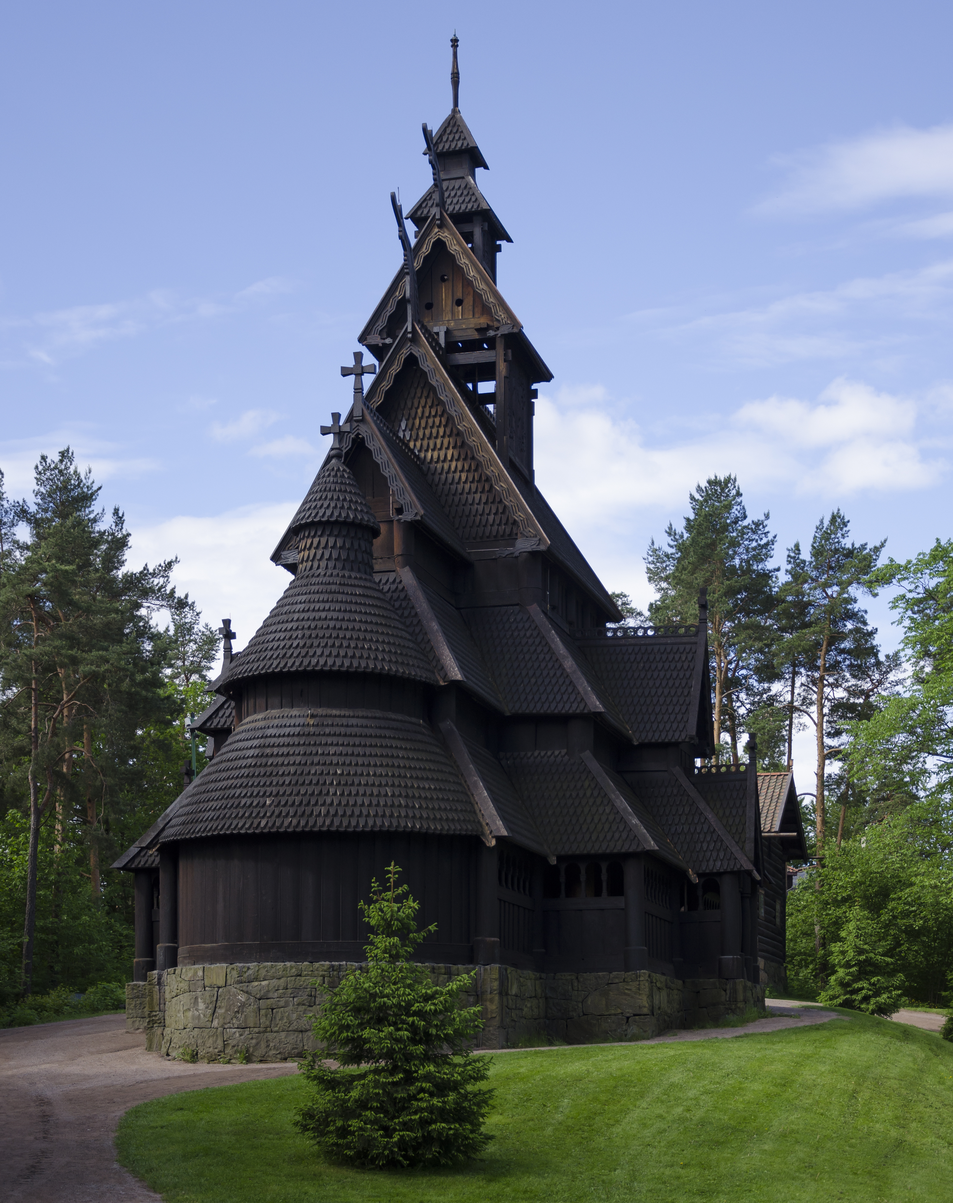 Stave church from Gol in Halling valley, ca. 1200. Moved to the Norwegian Museum of Cultural History 1884. Around 1/3 of the materials were thought to be mediaeval - the rest of the church was reconstructed, modelled after Borgund stave church in Sogn.